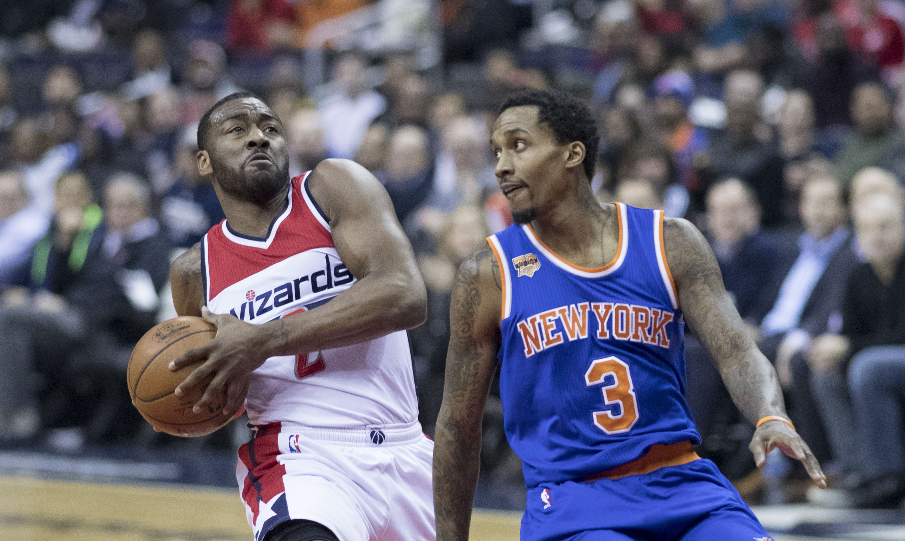 Knicks at Wizards 1/31/17